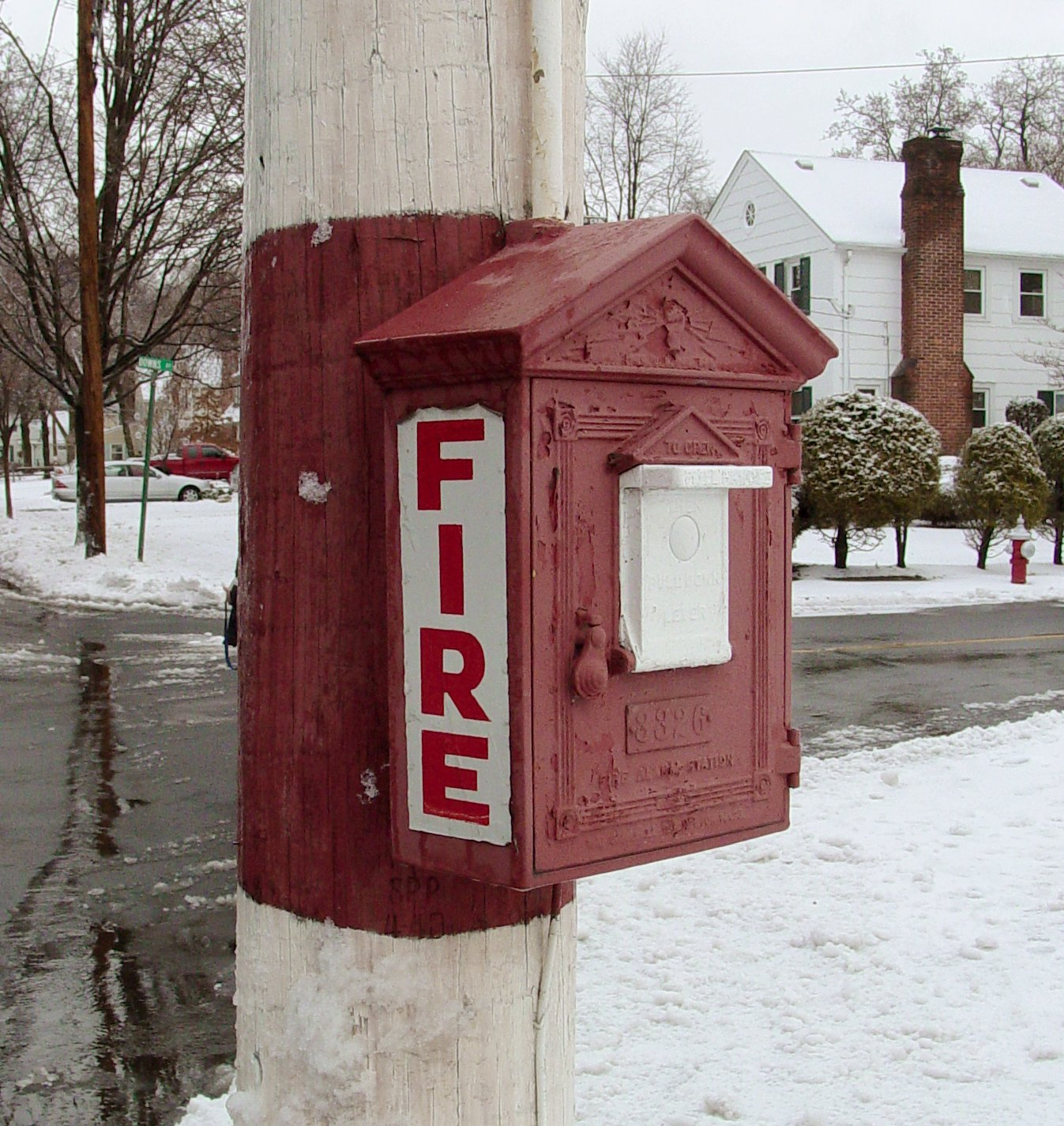 A Gamewell fire alarm pull station is mounted on a telephone pole in a neighborhood in Ridgewood, New Jersey. Photo taken January 4, 2003 by Ben Schumin.